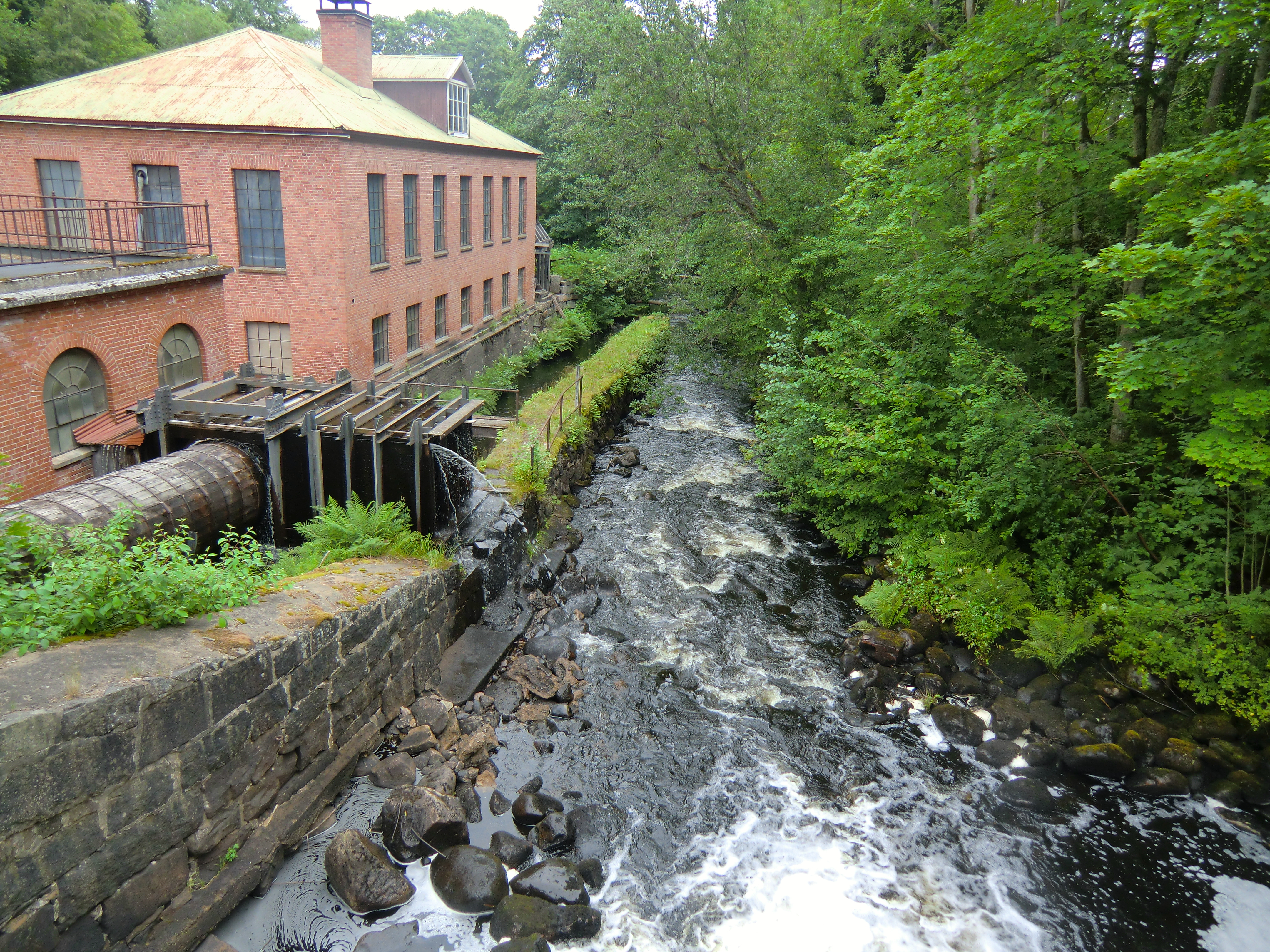 River Tidan in Ryfors, Mullsjö kommun, Sweden.